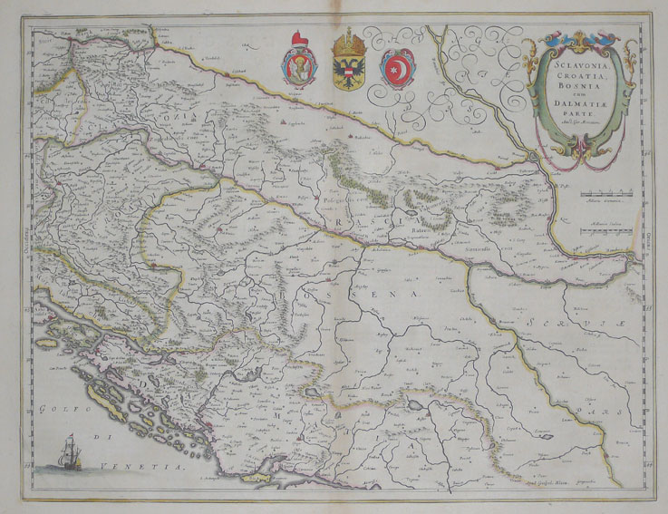 Slavonia, Croatia, Bosnia and a part of Dalmatia. Map made by G. Mercator and published in 1643-50 in Amsterdam by Blaeu, J. & G.